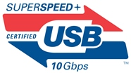 USB 3.1 Logo